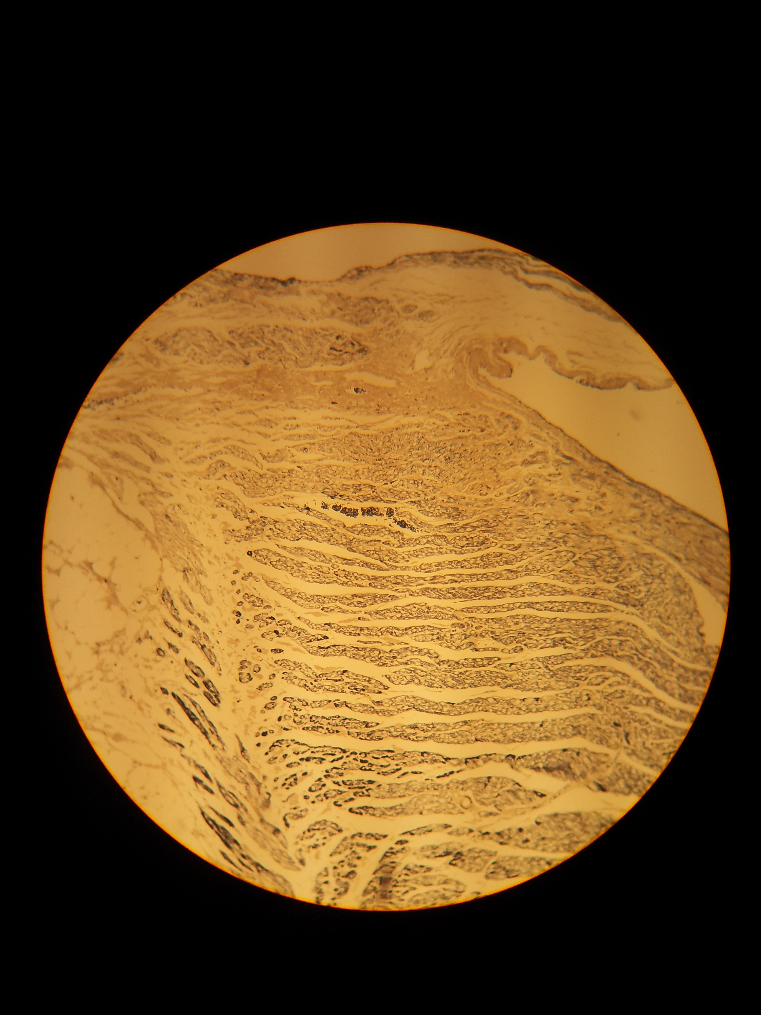 Nerovus tissue